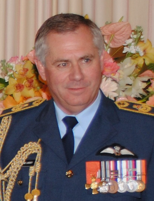 Air Vice Marshal Graham Lintott, on 8 September 2010.